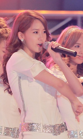 Im Yoona at Hanyang University festival, 17 May 2011